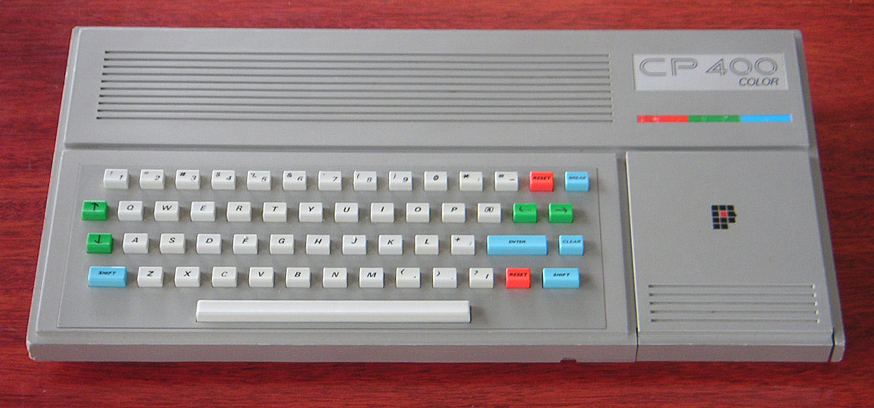 Brazilian CoCo 6809E clone from the 1980s.